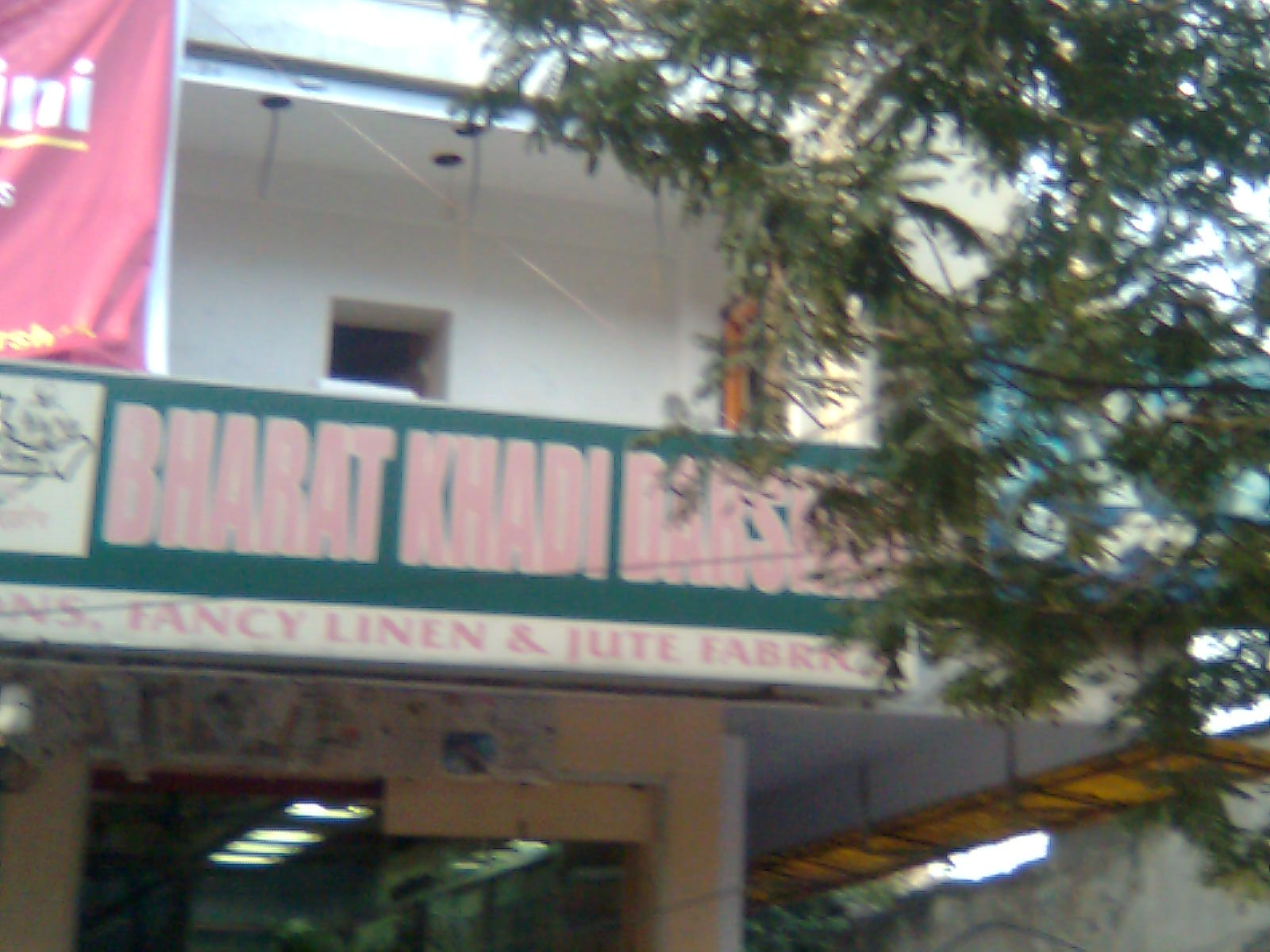 Khadi Sale Shop